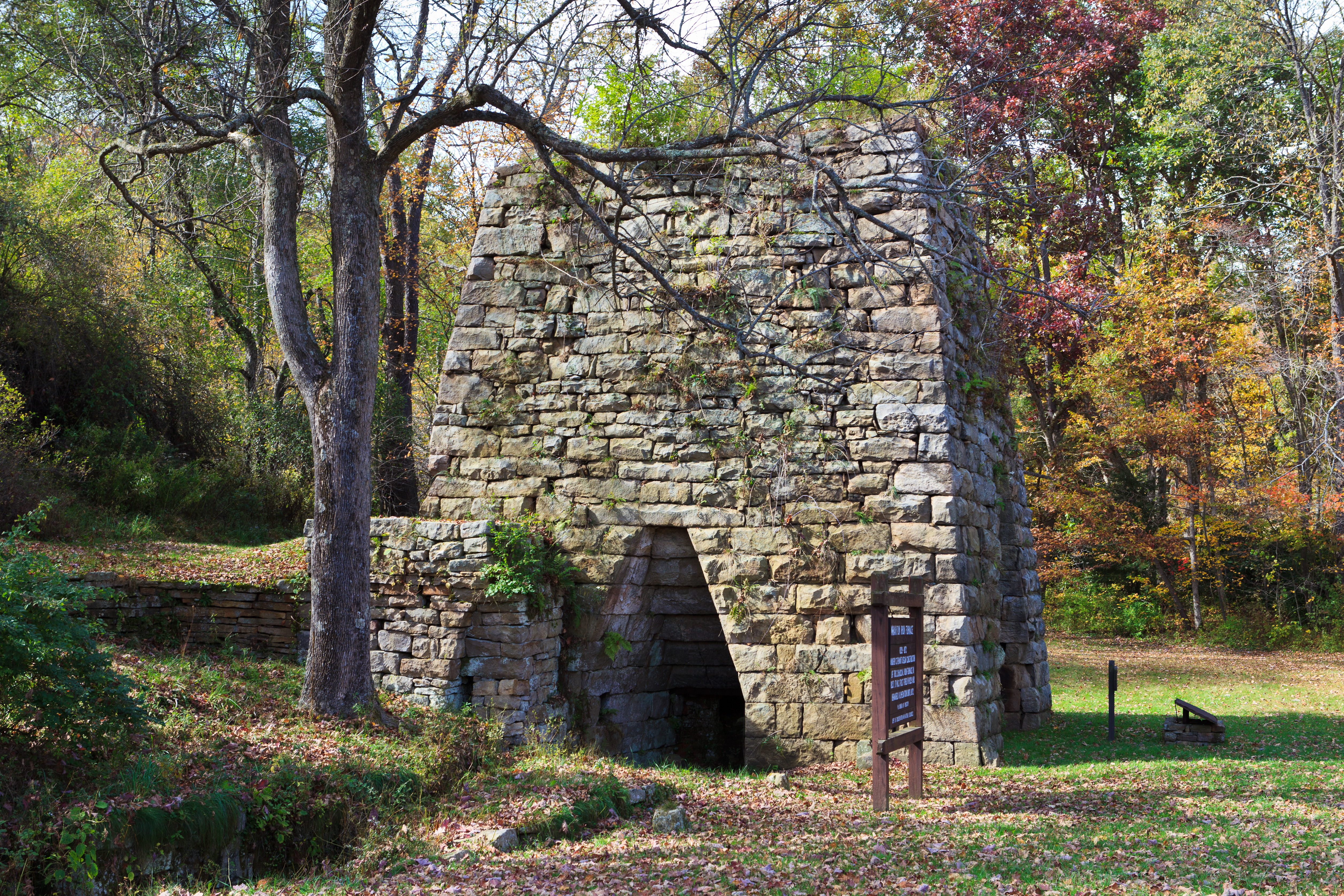 Wharton Furnace, a historic iron furnace located at Wharton Township, Fayette County, Pennsylvania. Looking at the south east face.